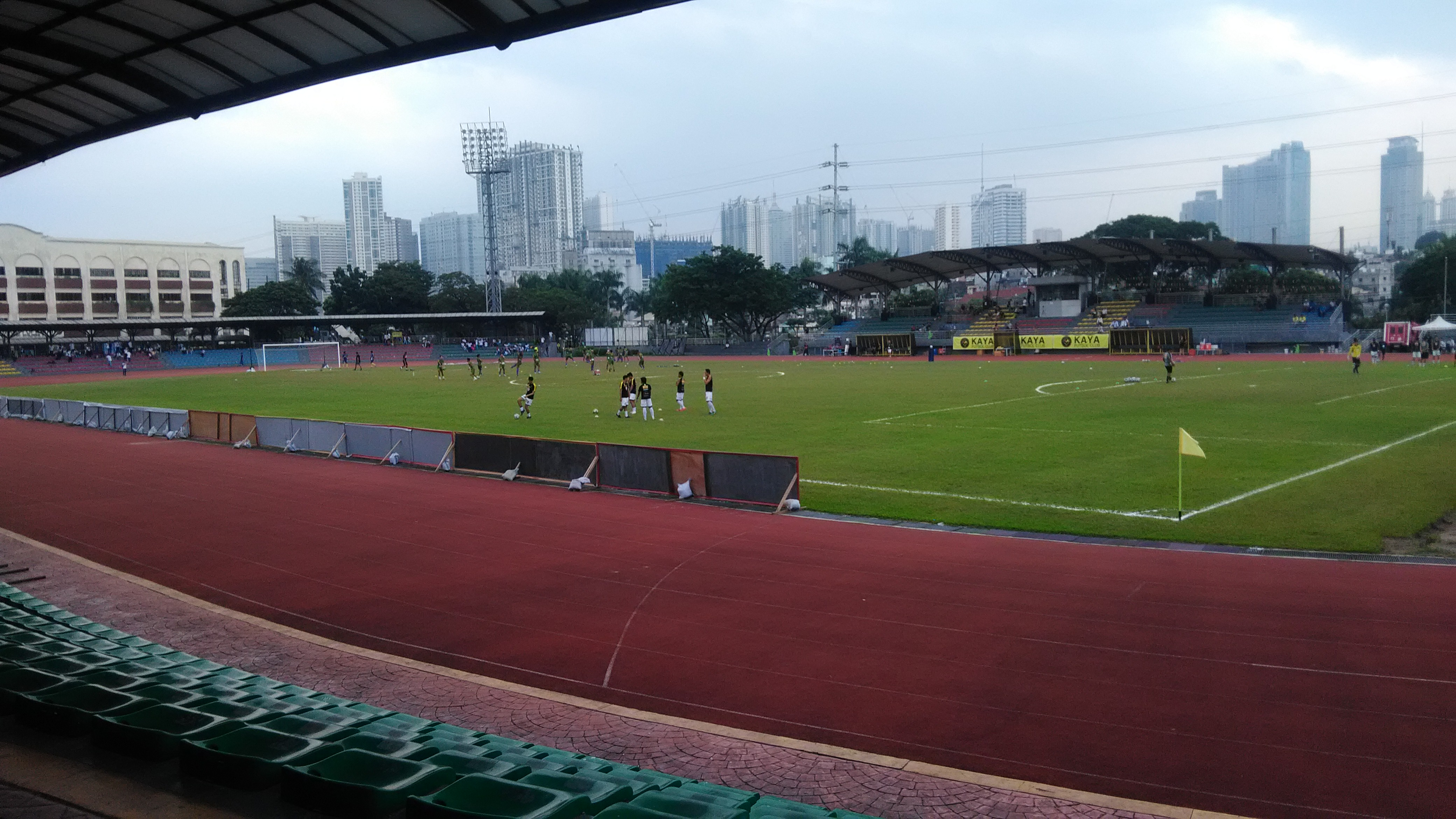 The University of Makati Stadium. This photo was taken minutes prior to the Kaya FC-Makati v. JPV Marikina FC - Philippines Football League match. Players of both clubs and referees are doing warm-up exercises.